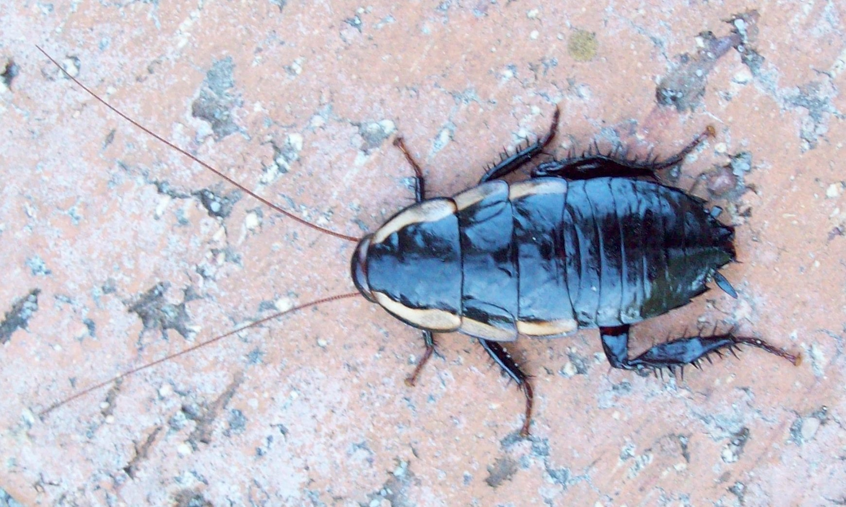 Drymaplaneta communis the "Common shining cockroach" photographed against brick path [MISIDENTIFICATION! It is D. semivitta! D. communis does not have flattened hind tibiae...Stho002 (talk) 08:17, 20 August 2012 (UTC)]